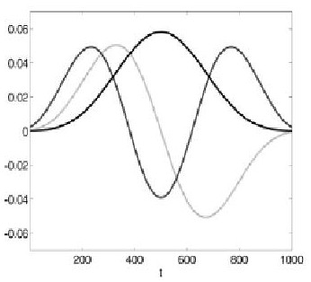 The three leading Slepian sequences for T=1000 and 2WT=6. Note that each higher order sequence has an extra zero crossing.